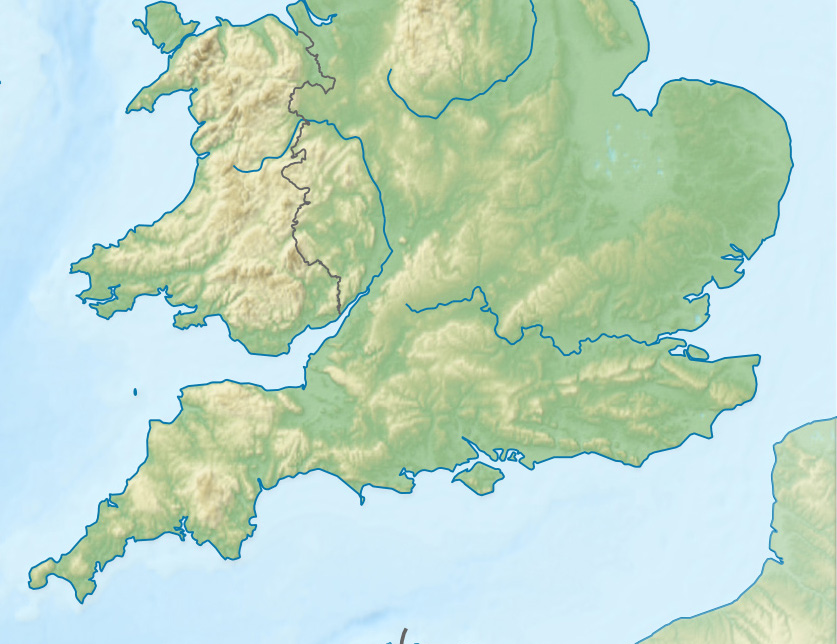 Location map the South of the United Kingdom Equirectangular projection, N/S stretching 170 %. Geographic limits of the map: N: 53.4° N S: 49.5° N W: 6.0° W E: 2.2° E